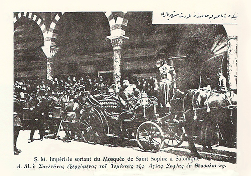 1911's postcard of Sultan's Mehmed V Resat adoration in Agia Sofia's Mosque of Thessaloniki at 31 May 1911